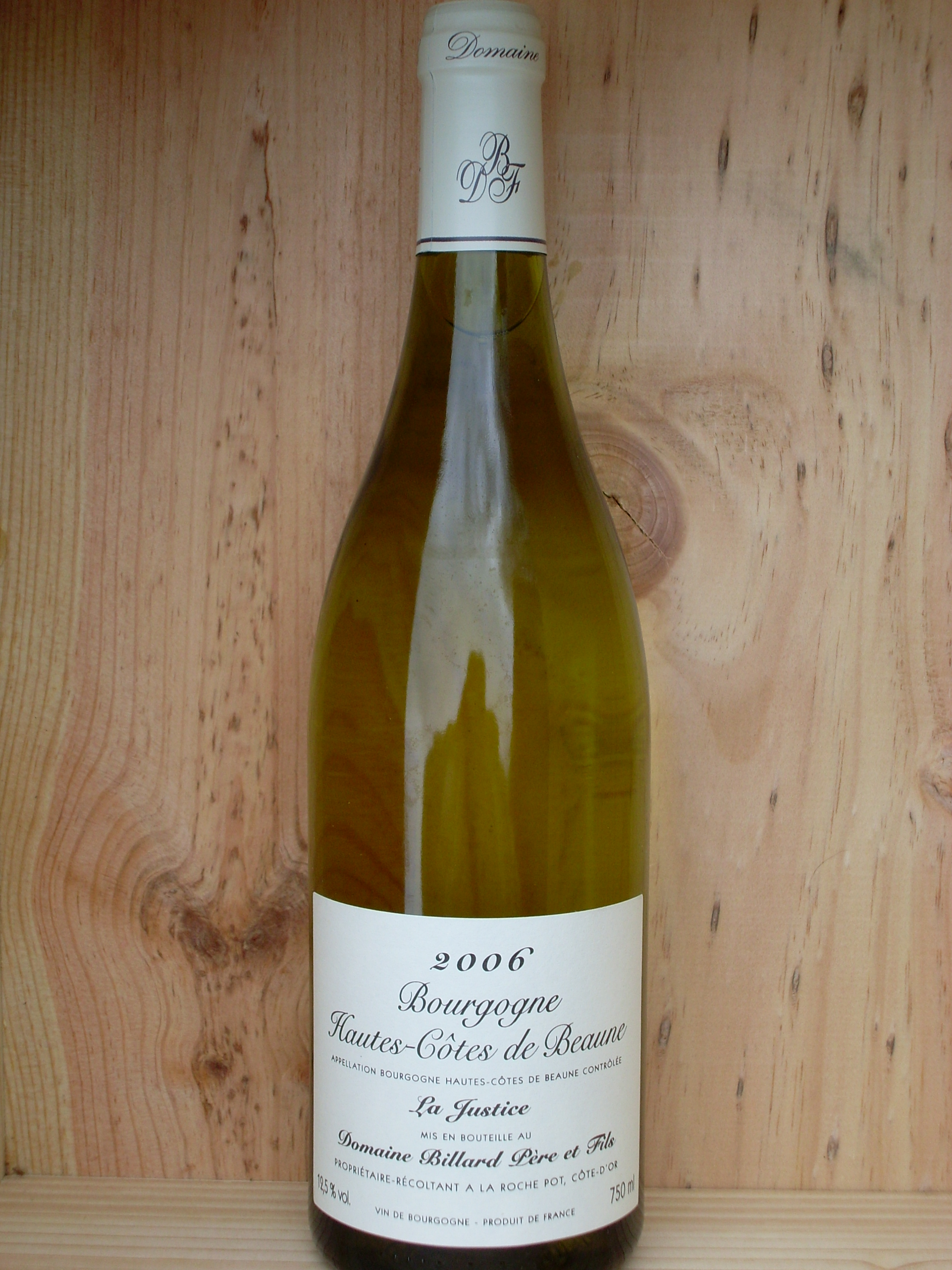 White Burgundy wine made from Chardonnay